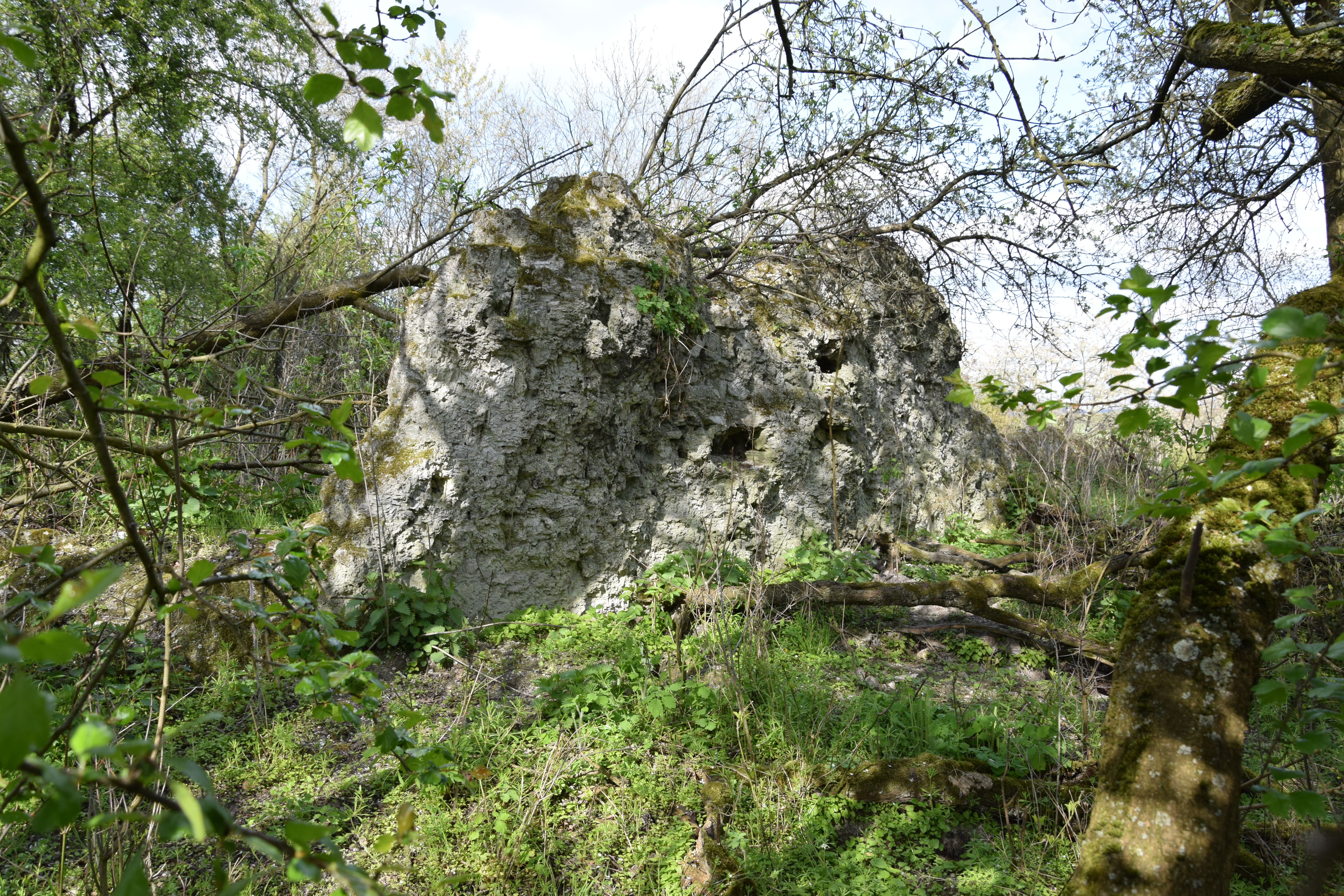 This is a photograph of an architectural monument.It is on the list of cultural monuments of Nordhausen/OT Steigerthal